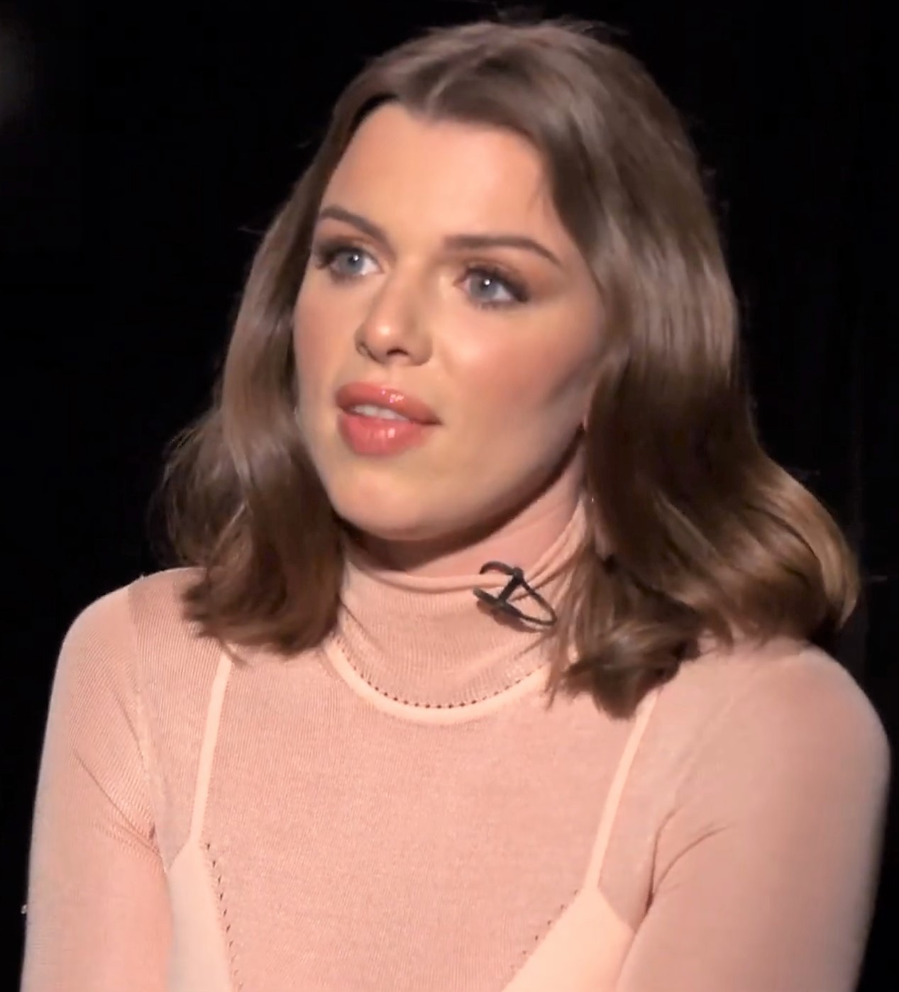 Kevin Garnett beats Kobe Bryant & Julia Fox beats Lady Gaga & Kim Kardashian? American actress Julia Fox interviewed by Dulce Osuna about her film Uncut Gems. "Uncut Gems" Opening Limited in LA and NY December 13, 2019; Everywhere December 25, 2019, Visit for more details on movie: Sigueme/Follow Me